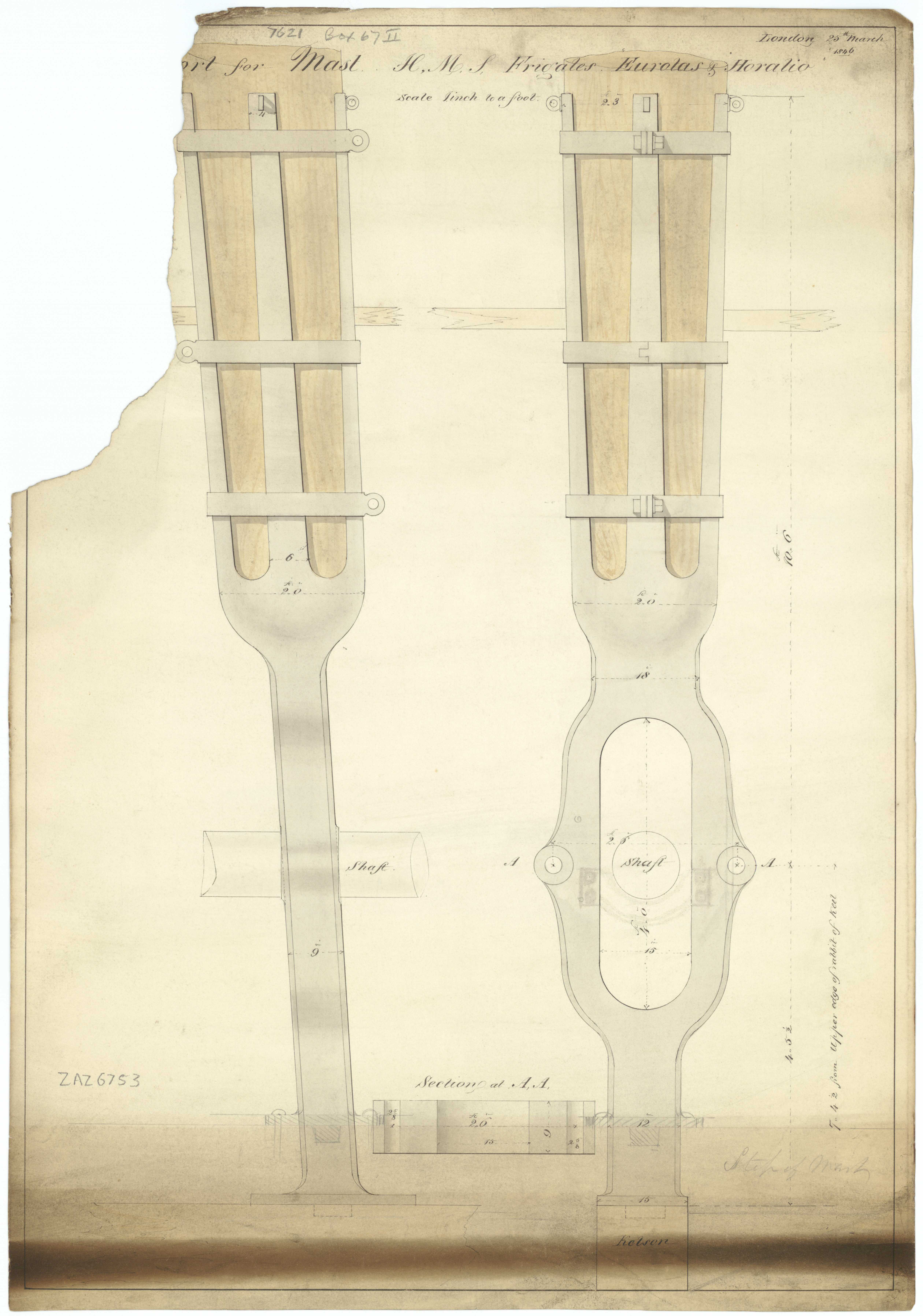 Eurotas (1829); Horatio (1807) Scale: 1:12. Plan showing the front and side elevations of the iron mast step (support) for Eurotas (1829) and Horatio (1807), both 38-gun Fifth Rate Frigates. EUROTAS 1829